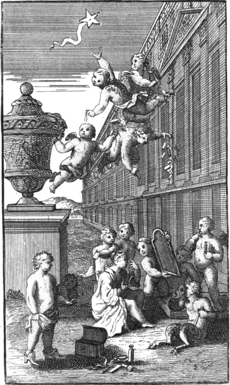 pg 4 of The rape of the lock: An heroi-comical poem. In five canto's.